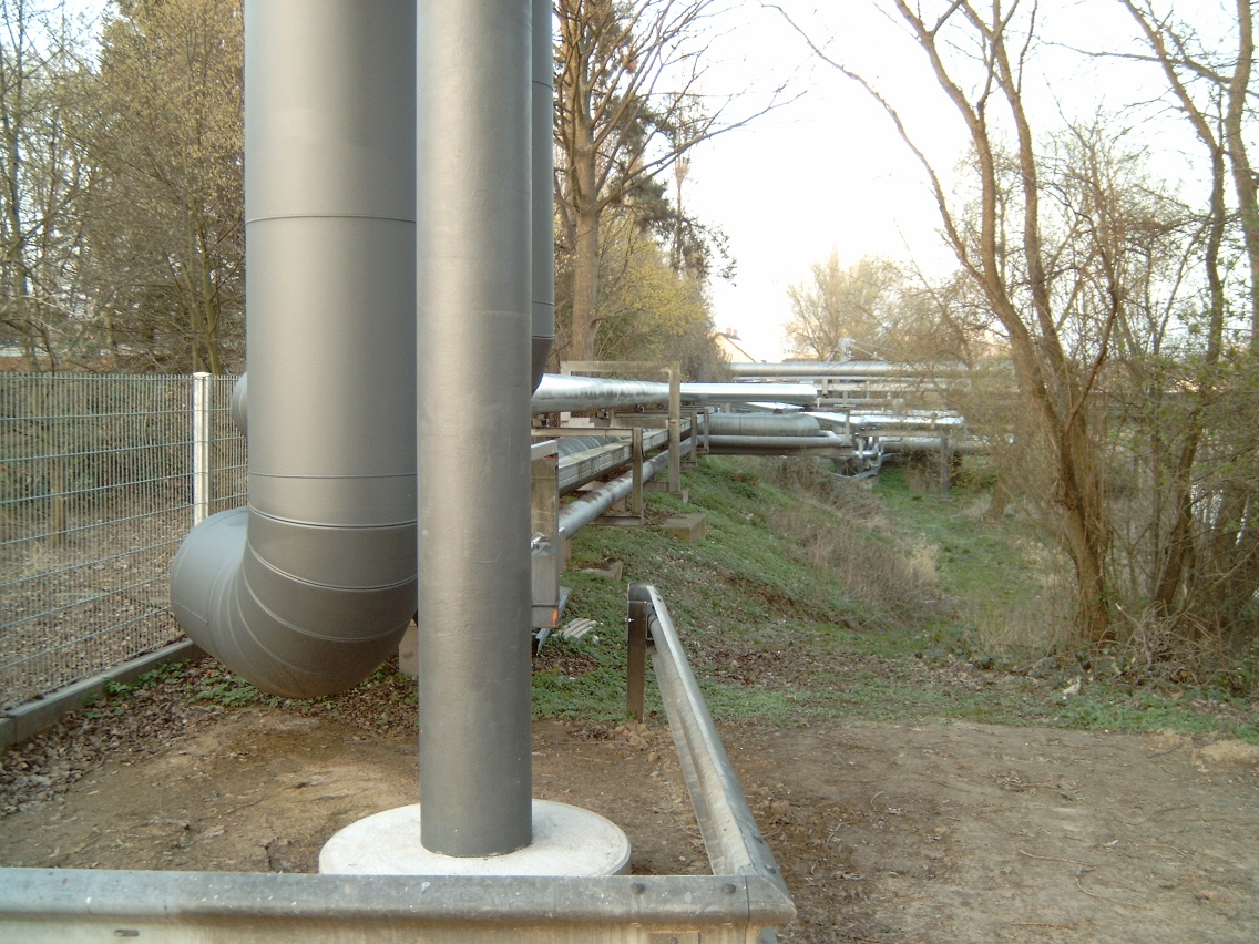 obove-ground installed district heating pipes located in Hameln, Germany